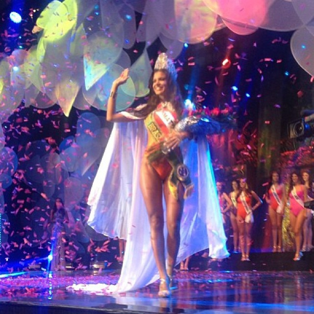 Jakelyne Oliveira : Miss Mato Grosso, Miss Brasil 2013